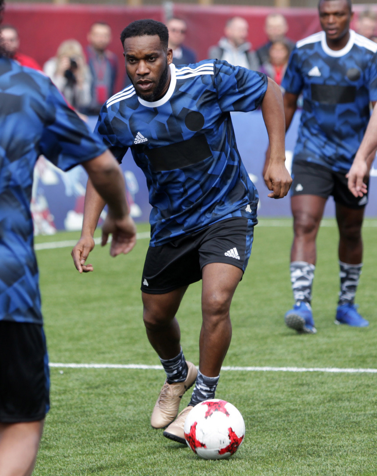 Jay-Jay Okocha